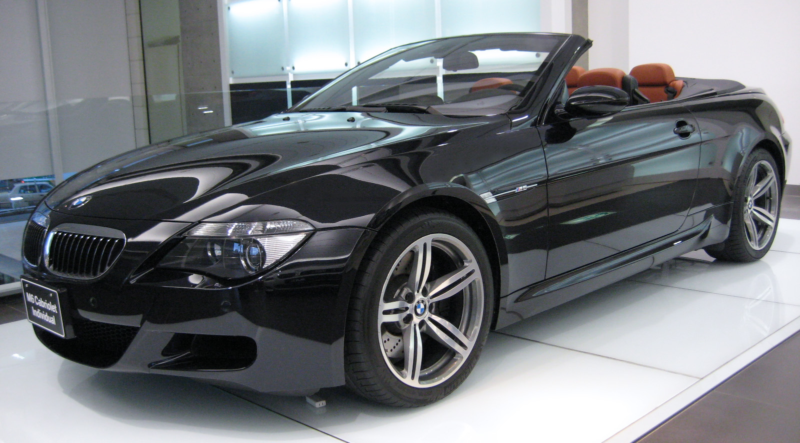 BMW E64 M6 Cabriolet Indivisual photographed in BMW M Paddock (Minato, Tokyo)